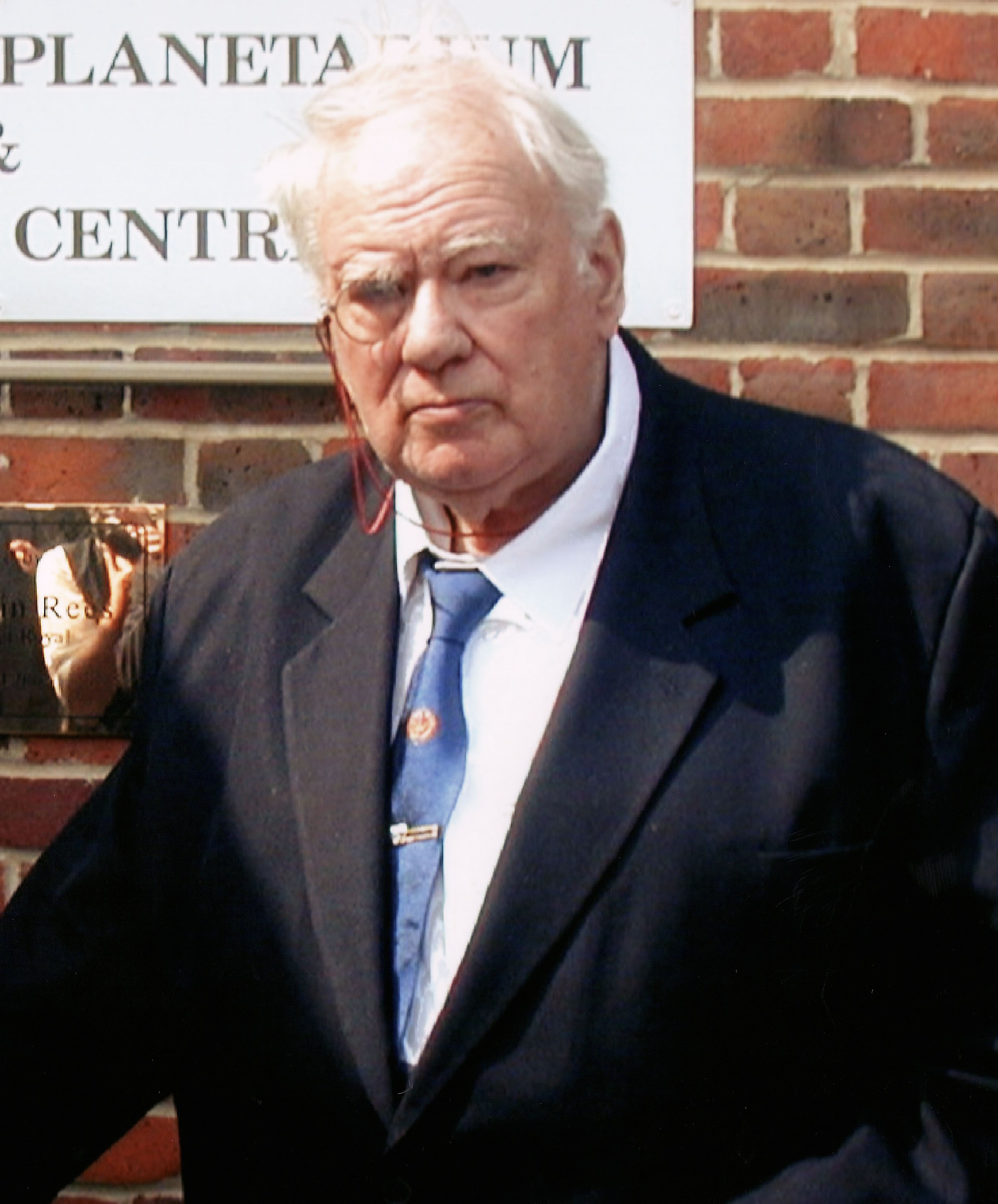 Sir Patrick Moore at the opening of the South Downs Planetarium.